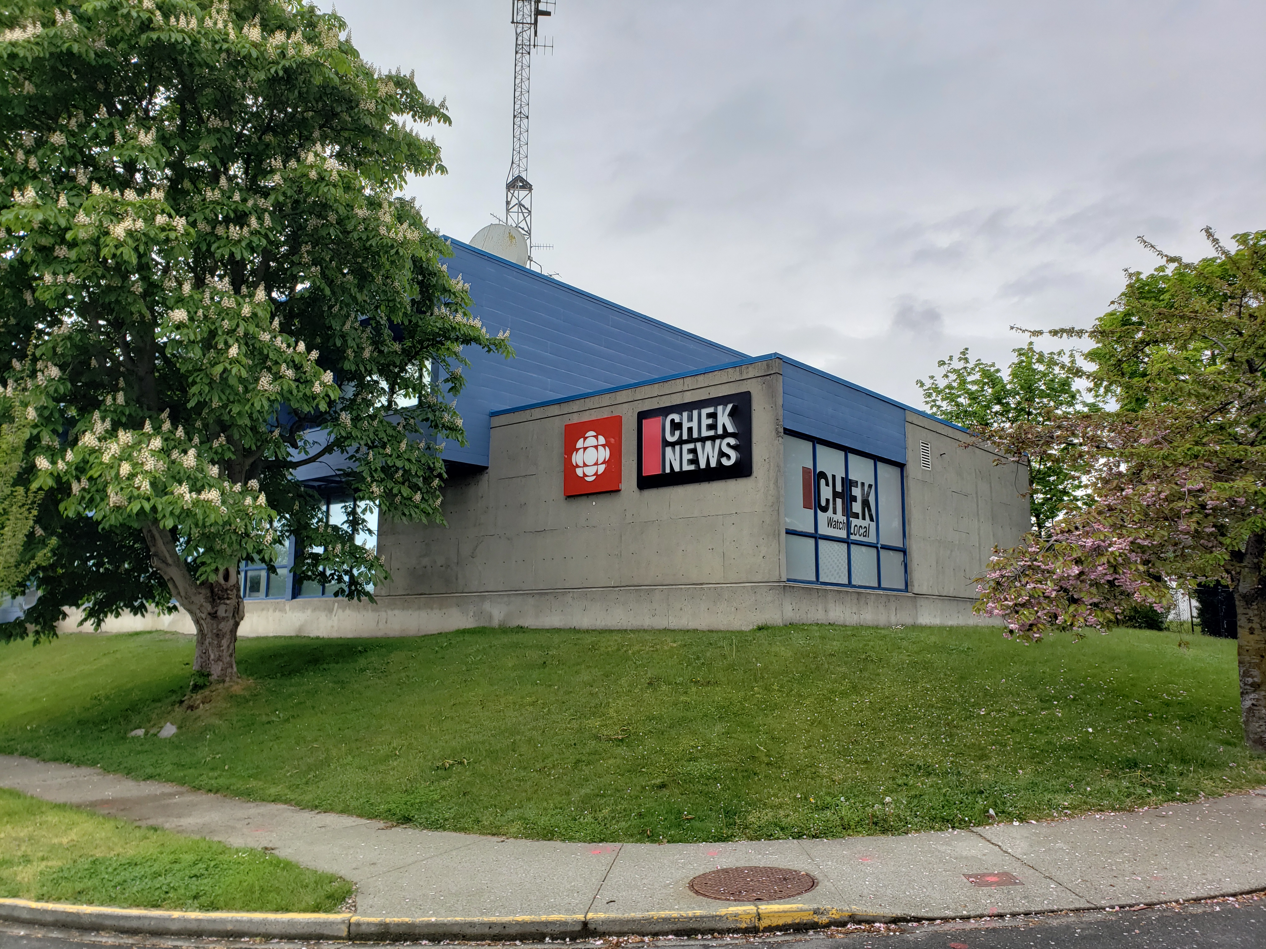 The studios of CHEK-DT, shared by CBCV-FM, at 780 Kings Road in Victoria, British Columbia, Canada.